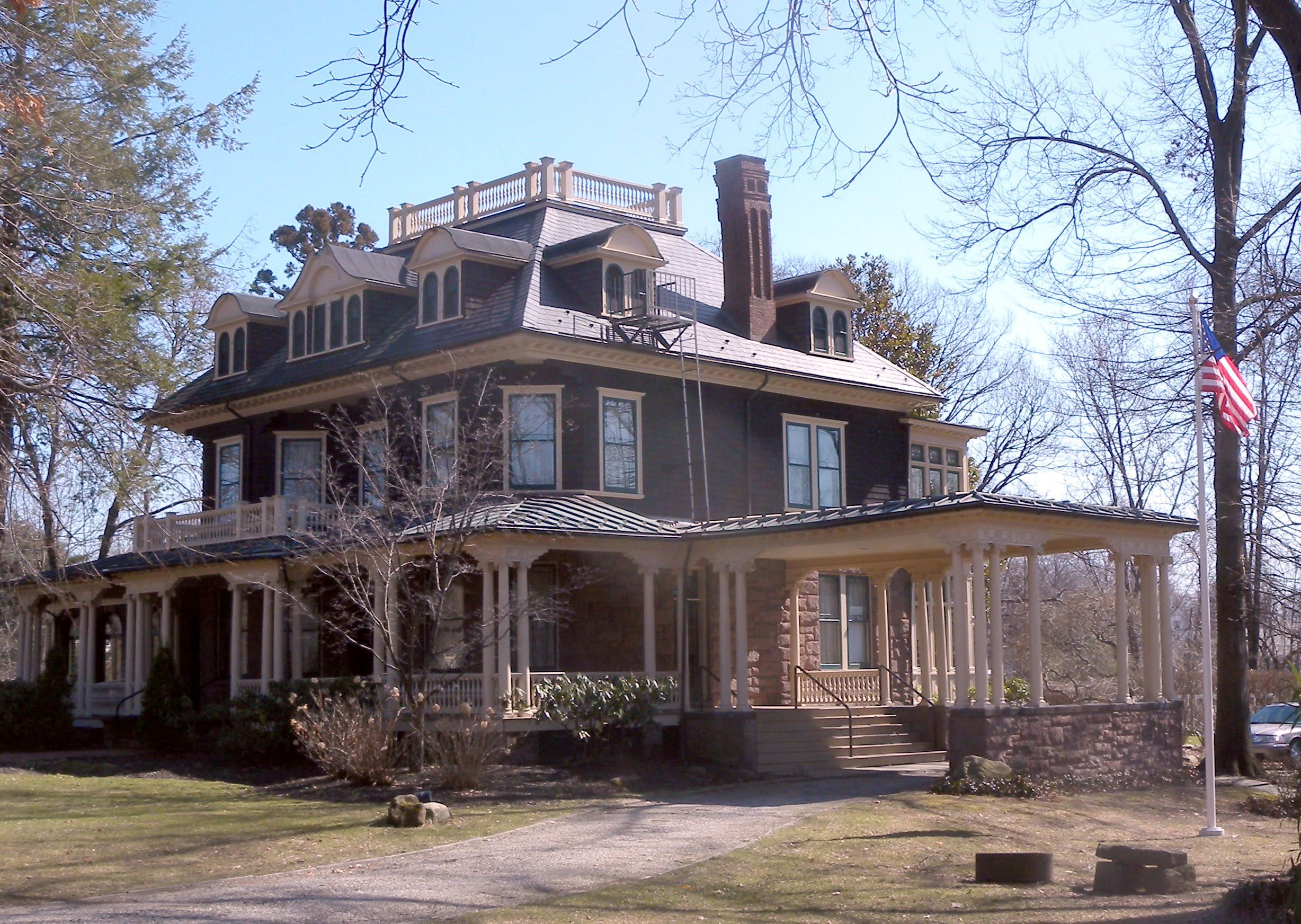 Looking east at Oakes Estate on a sunny midday.